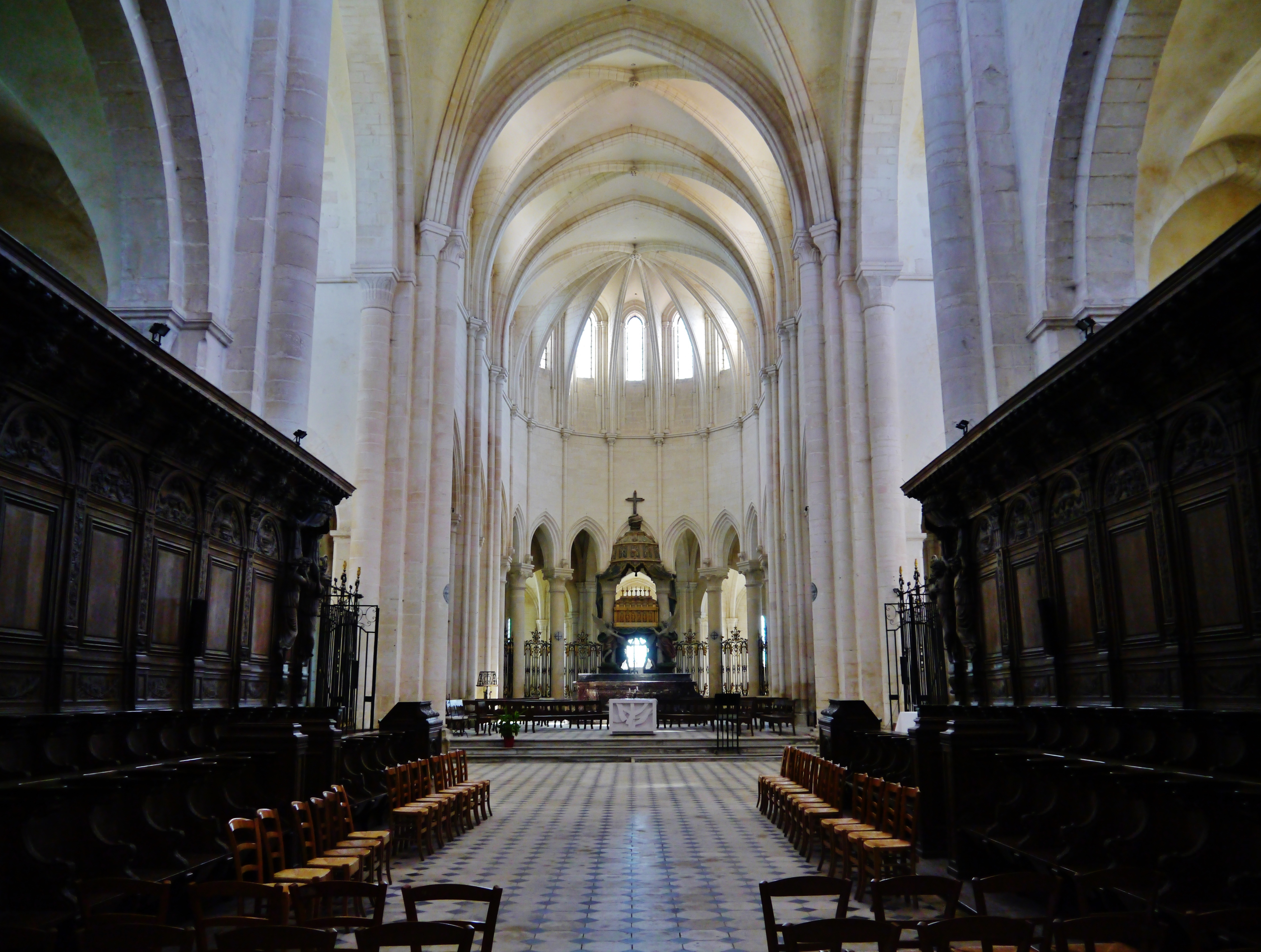 Choir of the Abbey Church, Pontigny, Département of Yonne, Region of Burgundy (now Burgundy-Franche-Comté), France